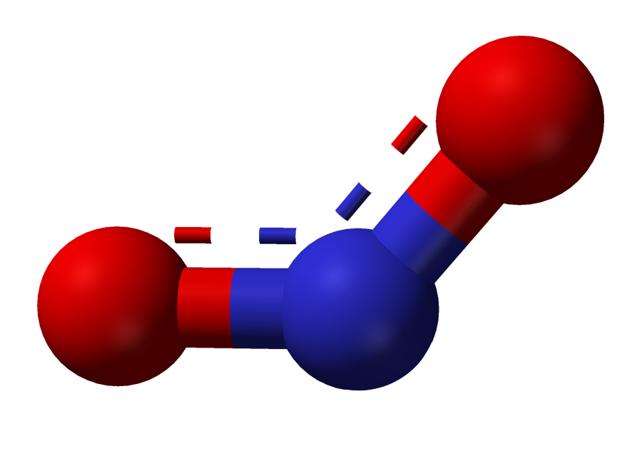 Ball and stick model of the nitrogen dioxide molecule.